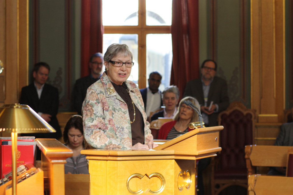 Torild Skard, former UNICEF chairman, in the Storting